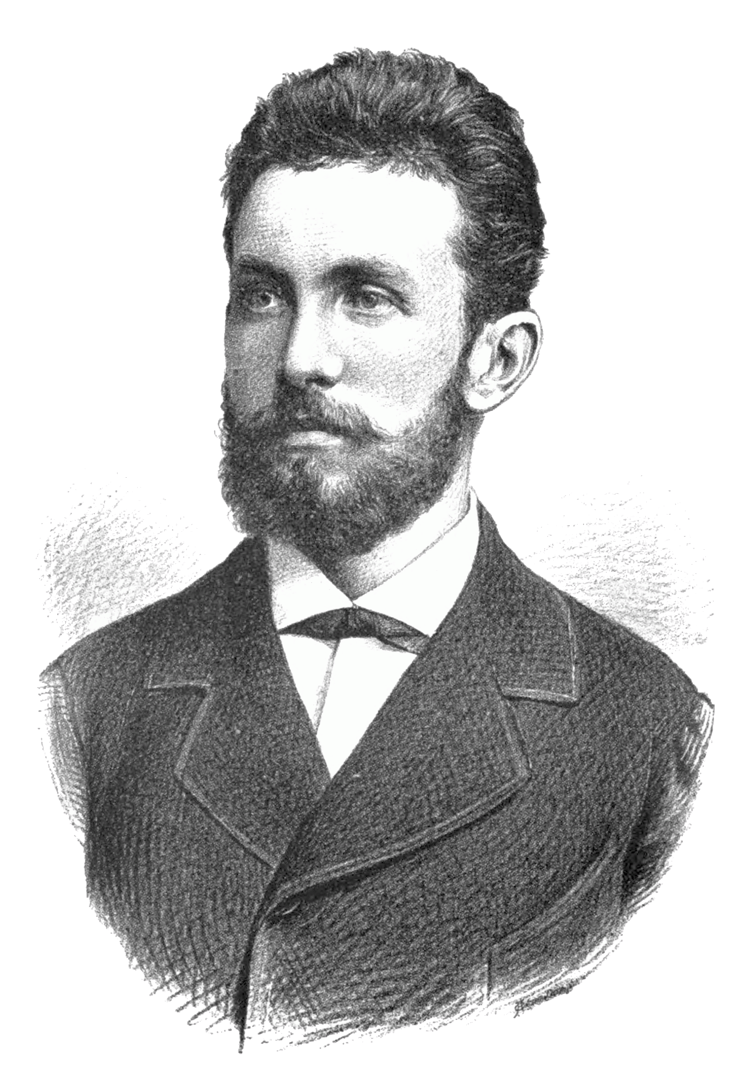 Rikard Jorgovanić (Richard Flieder Jorgovanić; 1853–1880), Croatian writer and poet